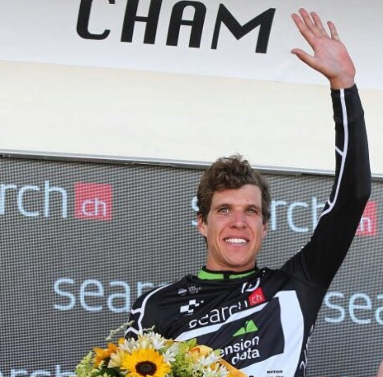 Podium Stage 2 Tour De Suisse